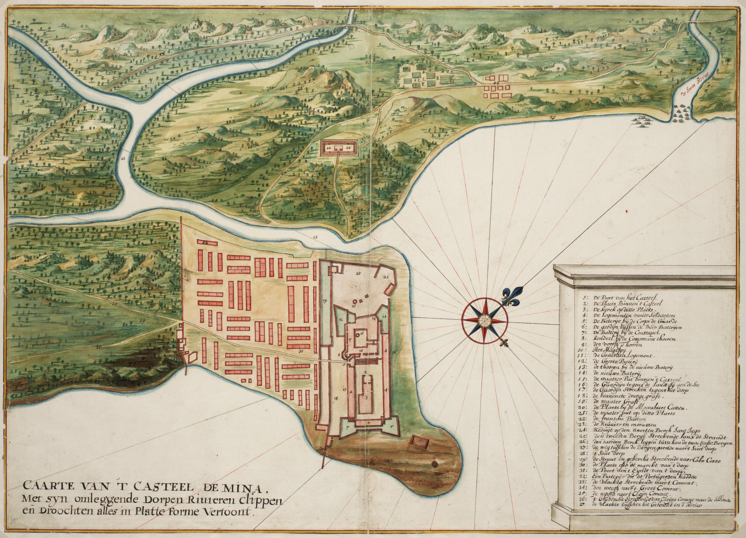 Title in the Leupe catalogue (NA): "Caerte van 't casteel de Mina met sijn omleggende dorpen, rivieren, clippen ende droochten alles in platte form vertoont". Map of Fort El Mina. Caarte van t Casteel de Mina Met syn omleggende Dorpen Riuieren clippen en droochten alles in Platte forme Vertoont. Key: 1: De Poort van het Casteel / 2: De Plaets Binnen 't Casteel / 3: De kerck op ditto Plaets / 4: De logementen vande Soldaeten / 5: De Batterije bij de Corps de Guarde / 6: De gardyn tussen de Bedo Batterijen / 7: De Batterij by de Constapel / 8: Rondeel bij de Coopmans thooren / 9: den voors Thooren / 10: Het Magasyn / 11: de Generaels Logement / 12: de Groote Baterij / 13: de thooren bij de nieuwe Batery / 14: de nieuwe Baterij / 15: de waatter Put binnen 't Casteel / 16: de Guardijn tegens de landt sij aen de see / 17: de Guardijn strecken tegens het dorp / 18: de binnenste drooge graft / 19: de waater Graft / 20: de Plaets by de Moscaliaet Catten / 21: de waater put op ditto Plaets / 22: de fransche Batterij / 23: de riuuier en morassen / 24: Reduyt op den naesten Berch Sant Jago / 25: den tweeden Bergh Streckende lanx de Strandt / 26: den daerden Berch leggen tusschen de twee eerste Bergen / 27: de weg tusschen de Bergen gaende naert Sout dorp / 28: 't Sout dorp / 29: De Strant en gebercht Streckende naer Cabo Corso / 30: de Poort den t Eyndt van t dorp / 31: de Poort aen 't Eyndt van t dorp / 32: Een Baterije die de Portugeesen hadden / 33: de Vlackte streckende naert Coment / 34: den wecgh naer 't Groot Coment / 35: de wegh naer t Cleijn Coment / 36: 't Ghebercht Streckende van Cleijne Coment naer de Mina / 37: de Vlackte tusschen het Gebercht en d'Rivier. Remarks: the map is included in the Vingboons Atlas. Cf. Österreichische Nationalbibiothek, Vienna, inv. nr. Van der Hem 36:20.